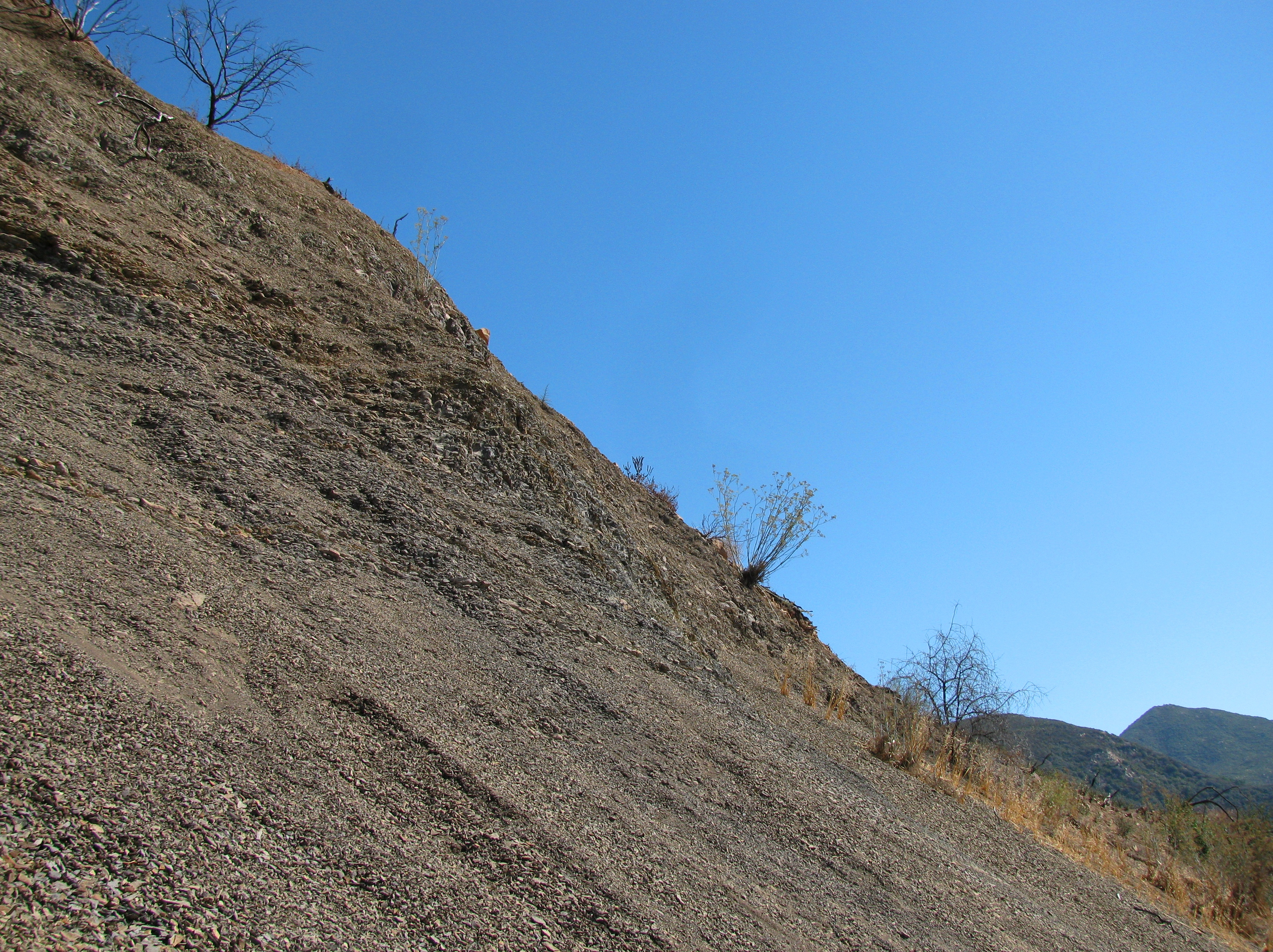 Cozy Dell Shale, Gibraltar Road, Santa Ynez Mountains. Photo by self, 9/26/10. Bedding visible at upper left; dramatic talus slope below.